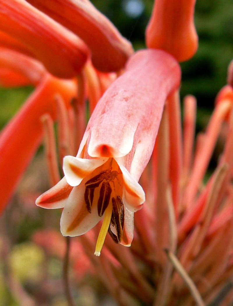 Photo of Aloe saponaria at the San Francisco Botanical Garden